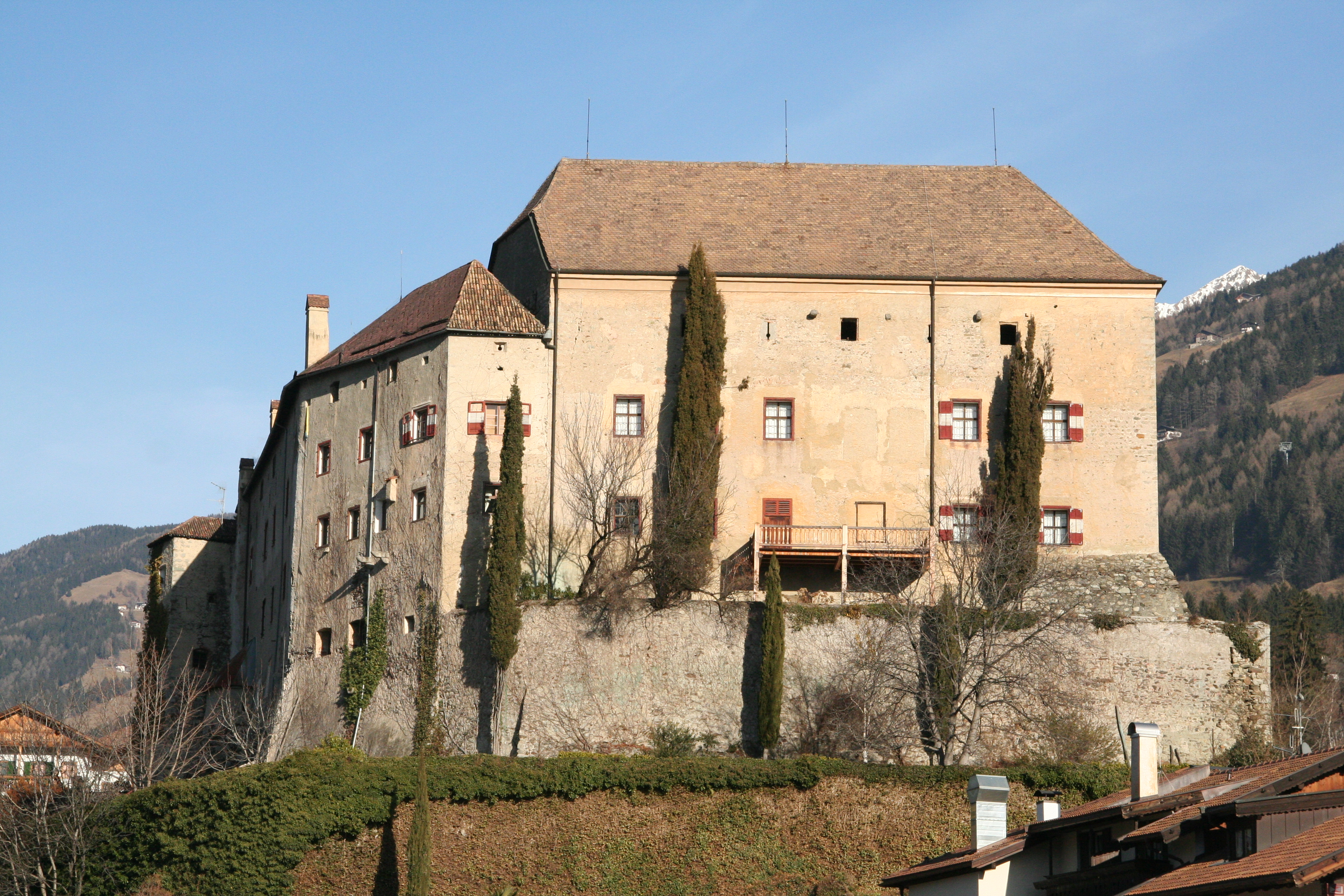 Schenna Castle, Schenna, South Tyrol